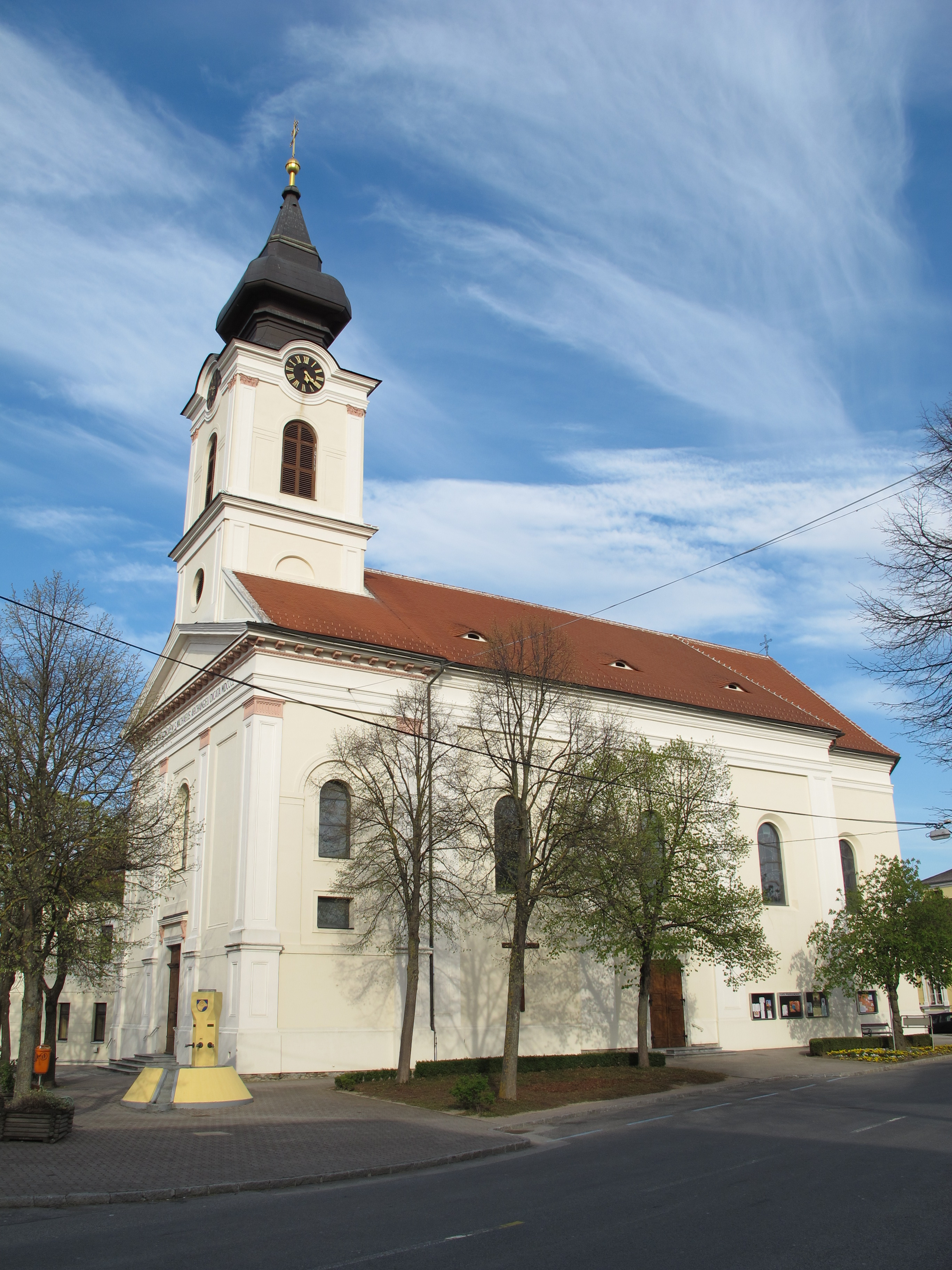 Pfarrkirche Großpetersdorf